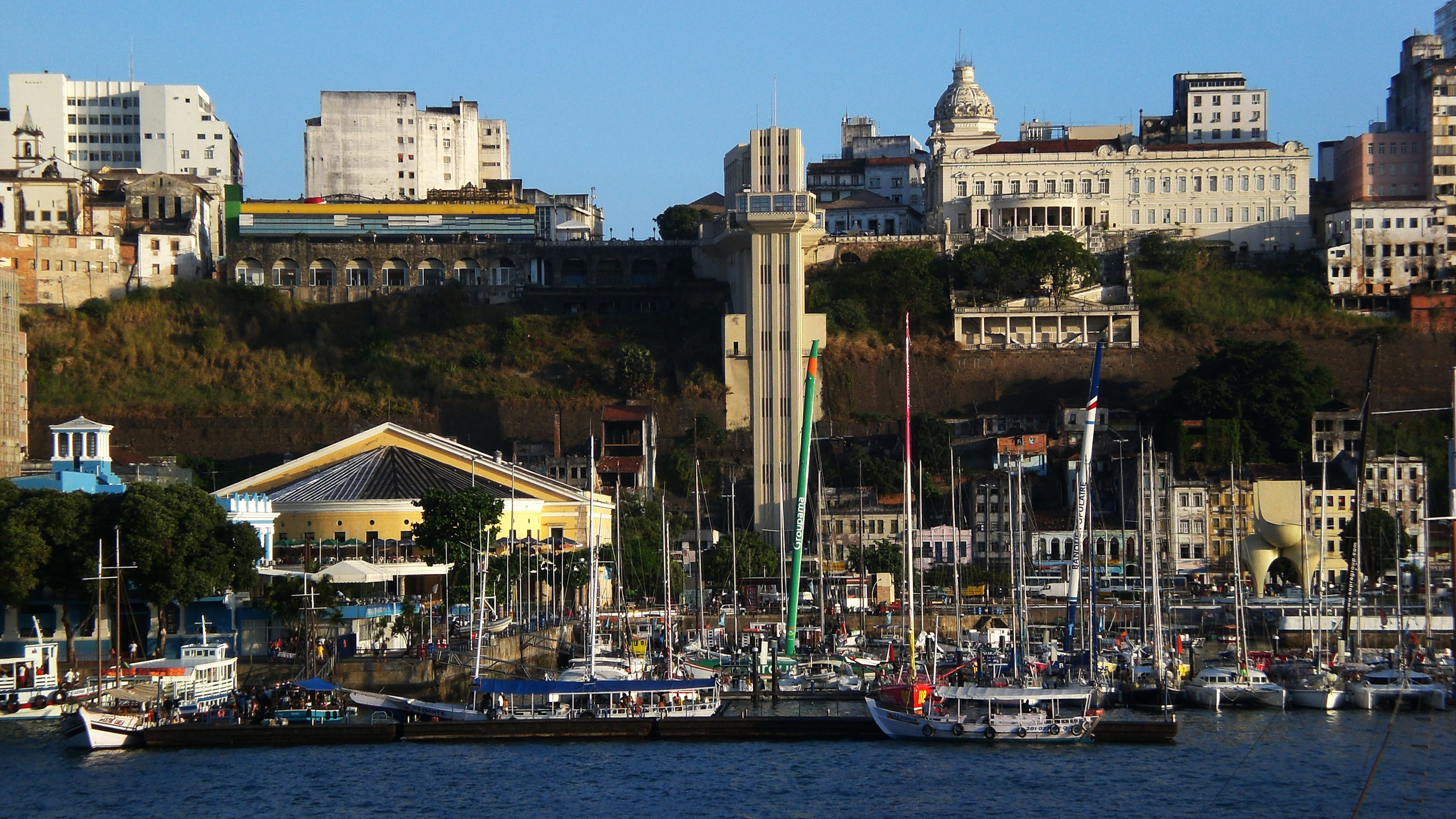 Partial sight of the central region, Salvador, Bahia, Brazil.